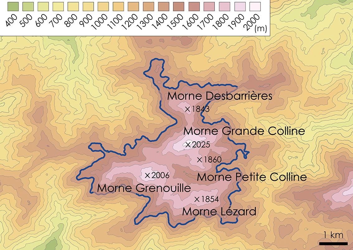 Grande Colline detail topographic map